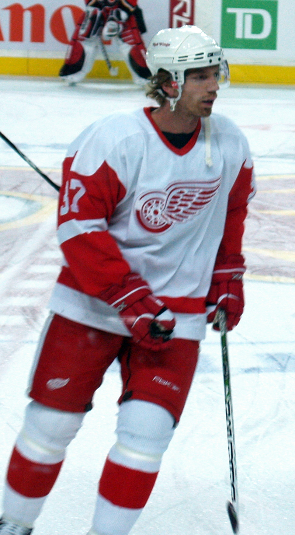 Mikael Samuelsson of the Detroit Red Wings in Calgary, Alberta, November 17, 2006.